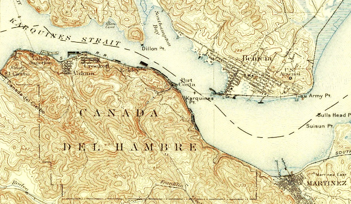 Port Costa with railroad ferry terminus